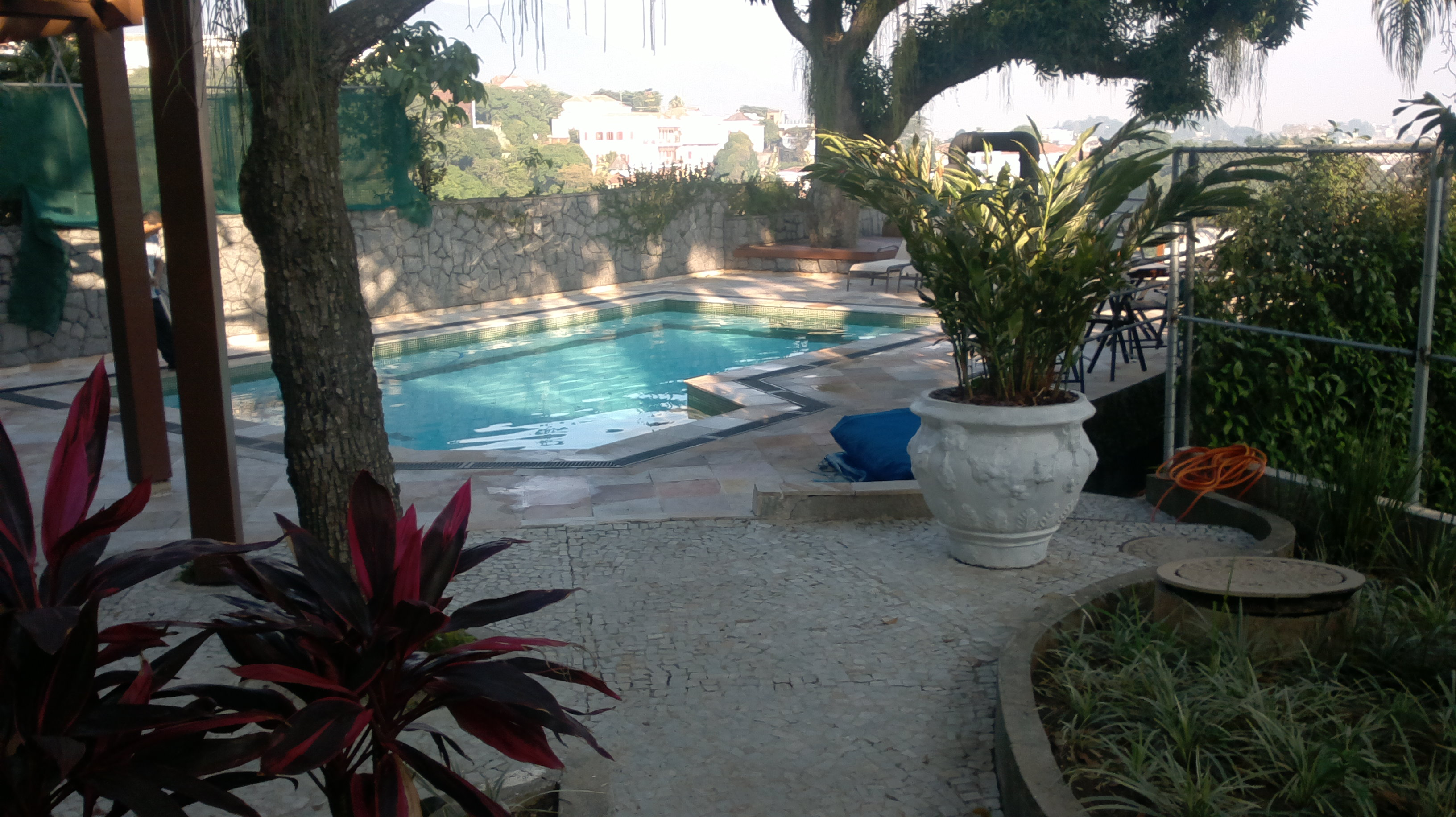 swimming pool for resting in a hotel at Rio de Janeiro City